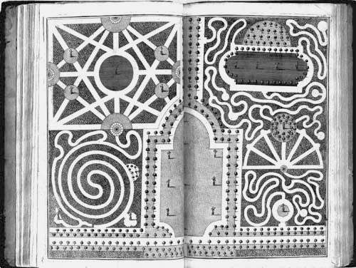 A plan for a serpentine garden